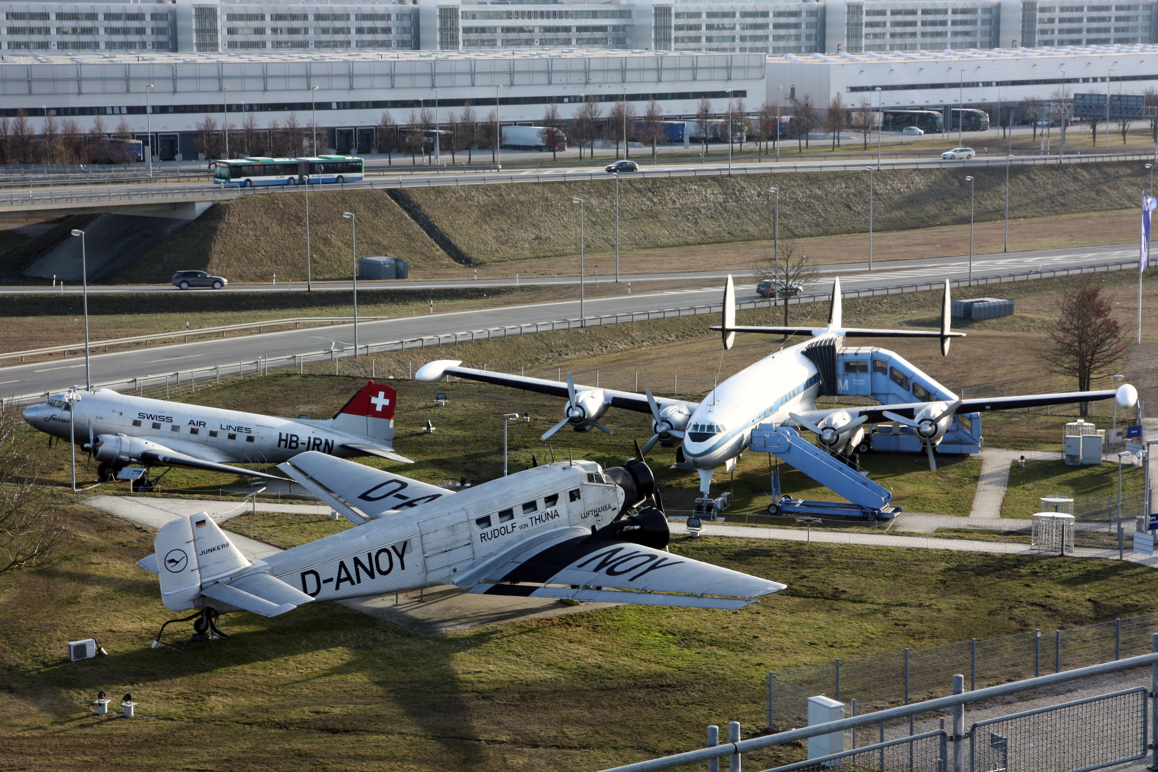 Munich Airport 'Visitors Park' - three historic aircraft are on display: A Lockheed Super Constellation (Lufthansa registration: D-ALEM), a Douglas DC-3 (Swissair registration: HB-IRN) and a Junkers Ju 52/3m (Lufthansa registration: D-ANOY). Picture taken in March 2013 from the 'Visitors hill'.